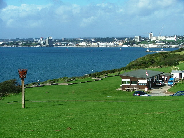 Jennycliff Cafe, overlooking Plymouth Sound. Sitting upon the eastern cliff top overlooking Plymouth Sound, Jennycliff Cafe makes for a warm refuge from which to watch the world sail by. Irrespective of the time of year the down is popular with walkers, who may even linger and picnic outside, if the weather is good enough.